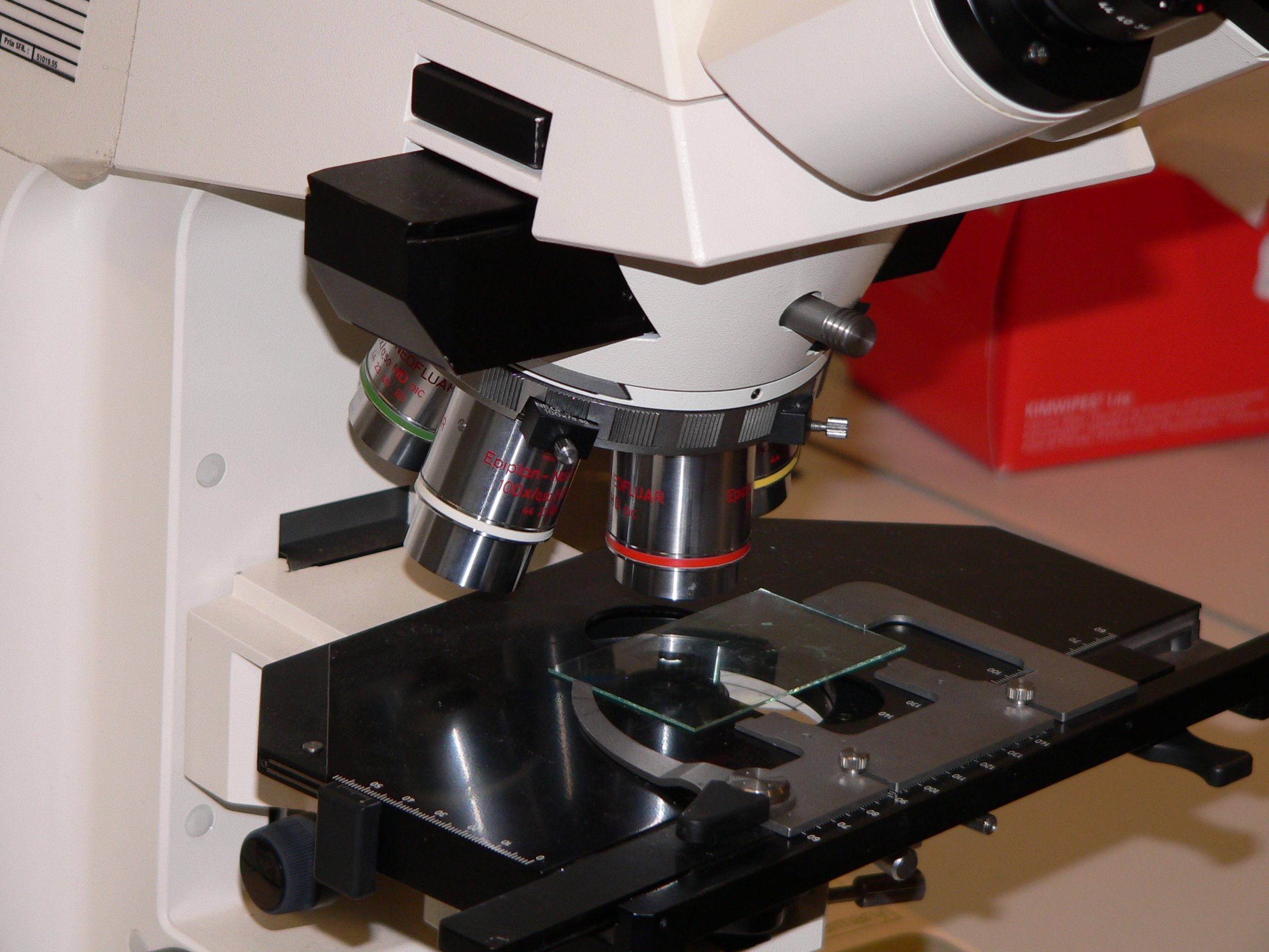 binocular microscope